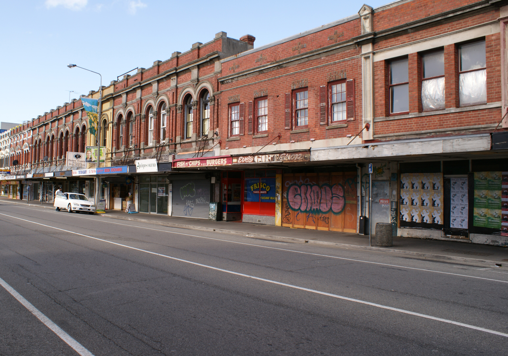 Historic facades in Colombo Street through Sydenham; all demolished after the 2010/11 earthquakes.